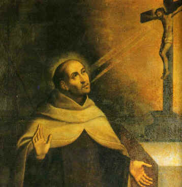 Portrait of John of the Cross